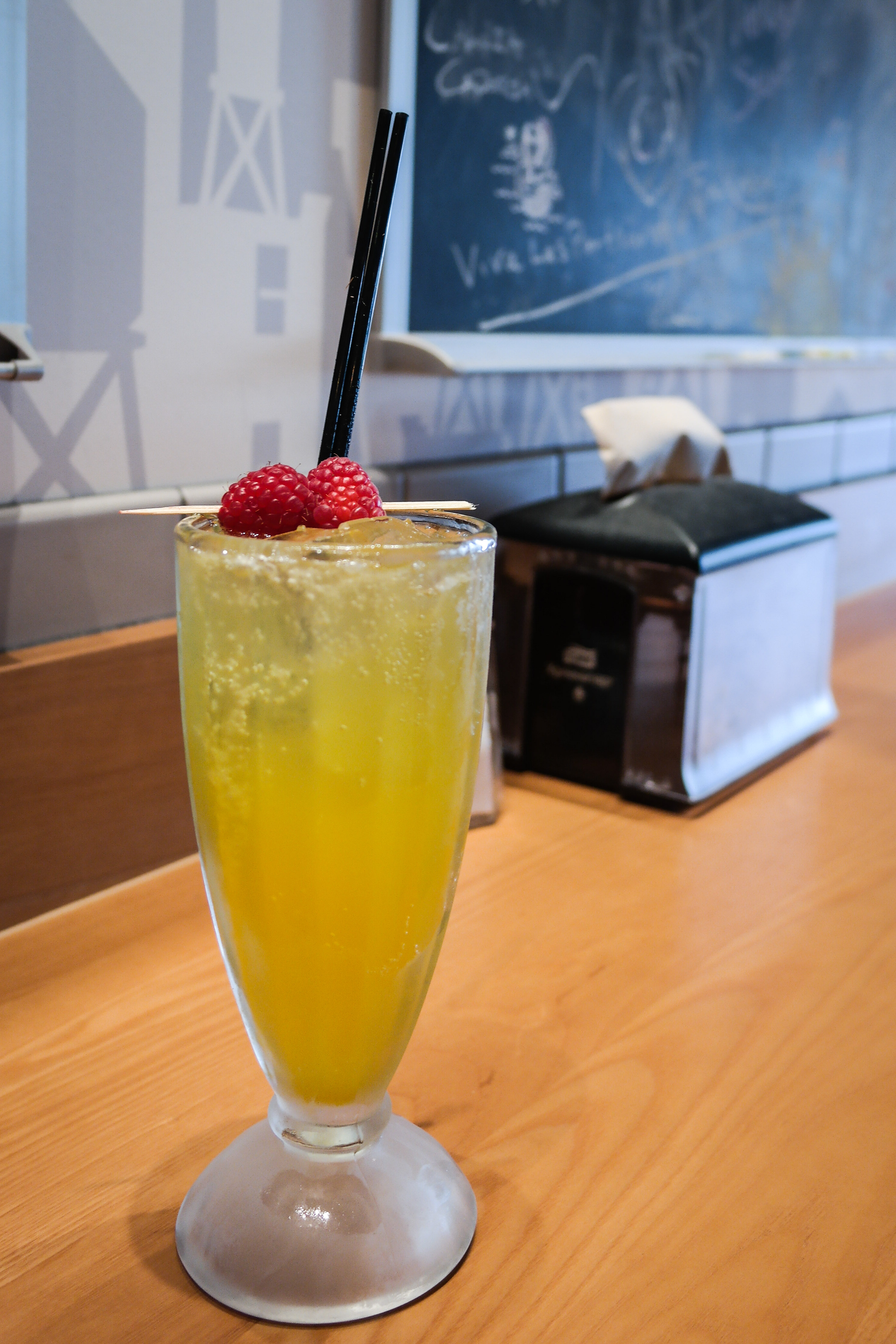 An orange soda at the Portland Penny Diner